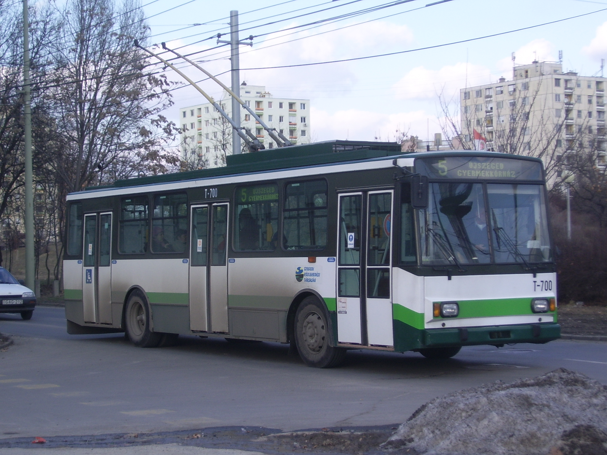 Trolley line 5 in Szeged. The route of this service changed few days later.